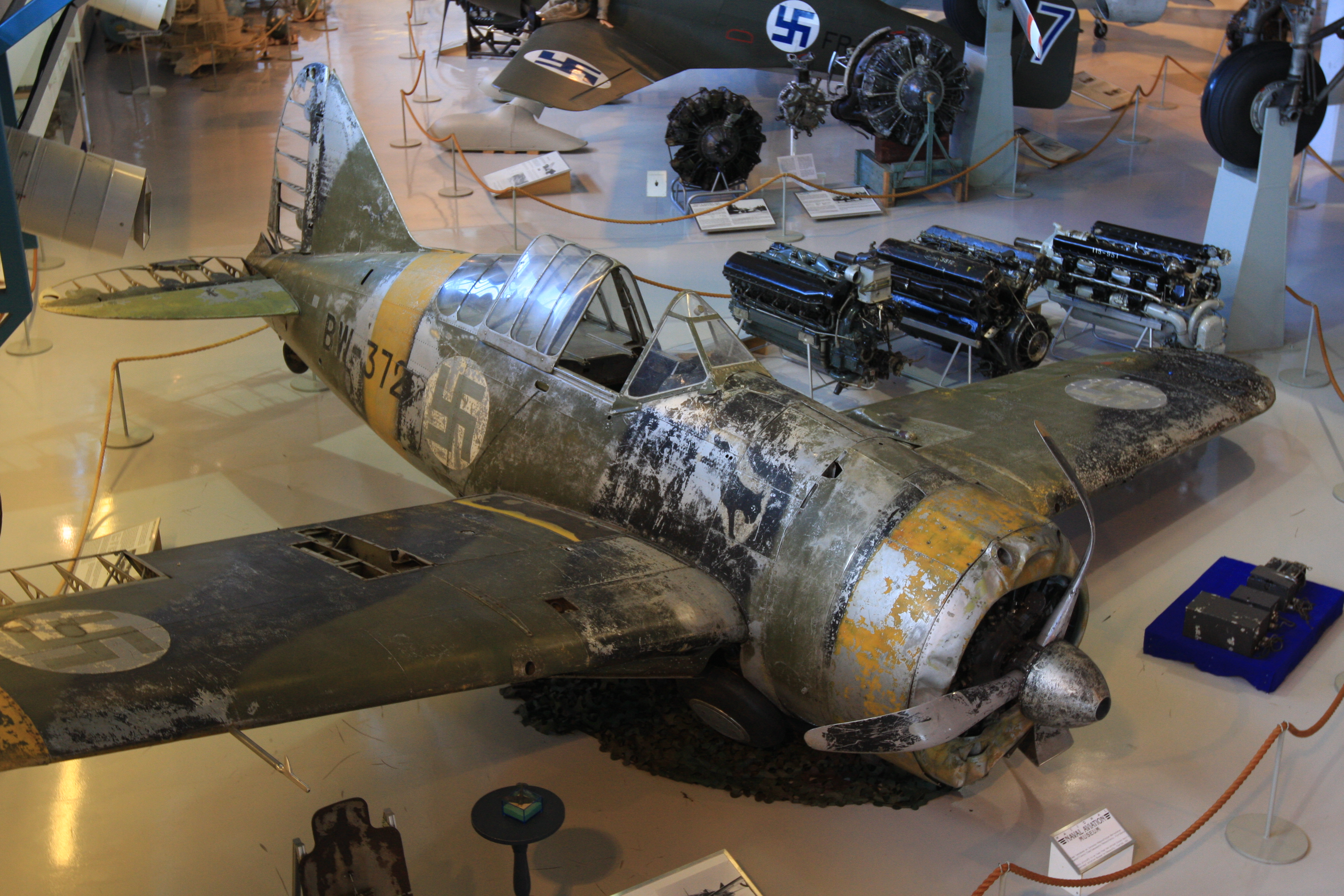 Lauri Pekuri`s Brewster B-239 BW-372 in Tikkakoski Keski-Suomen ilmailumuseo